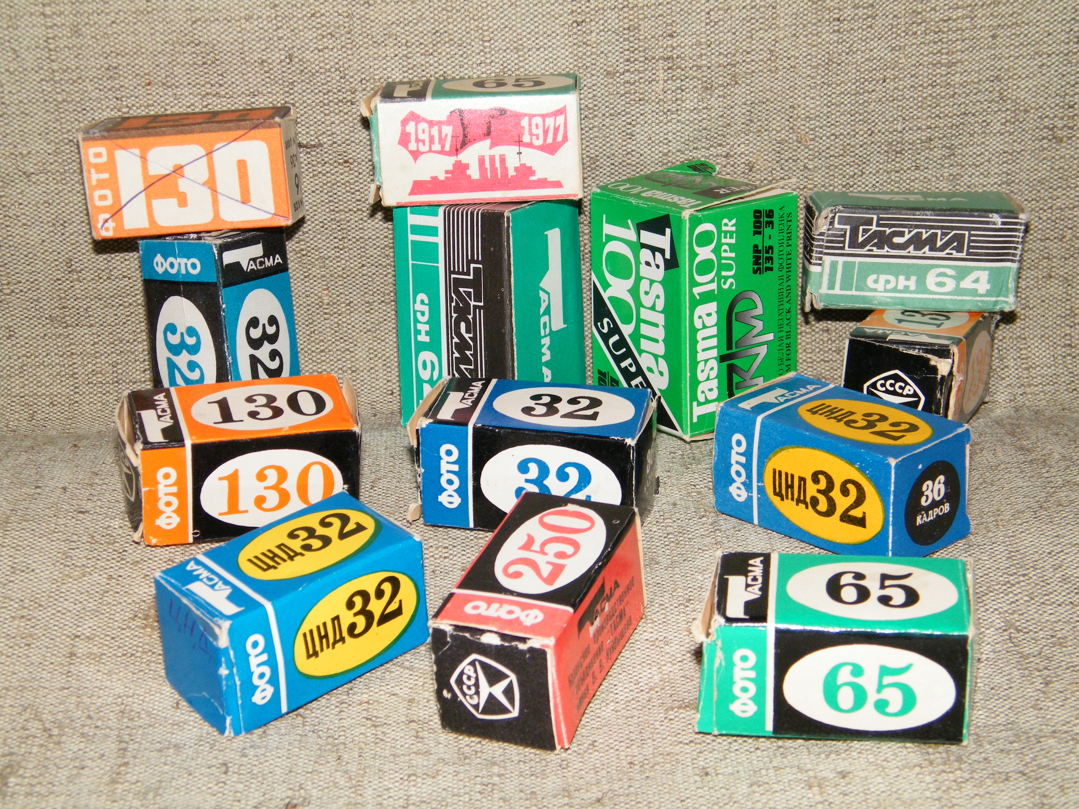 Фотопленки Тасма